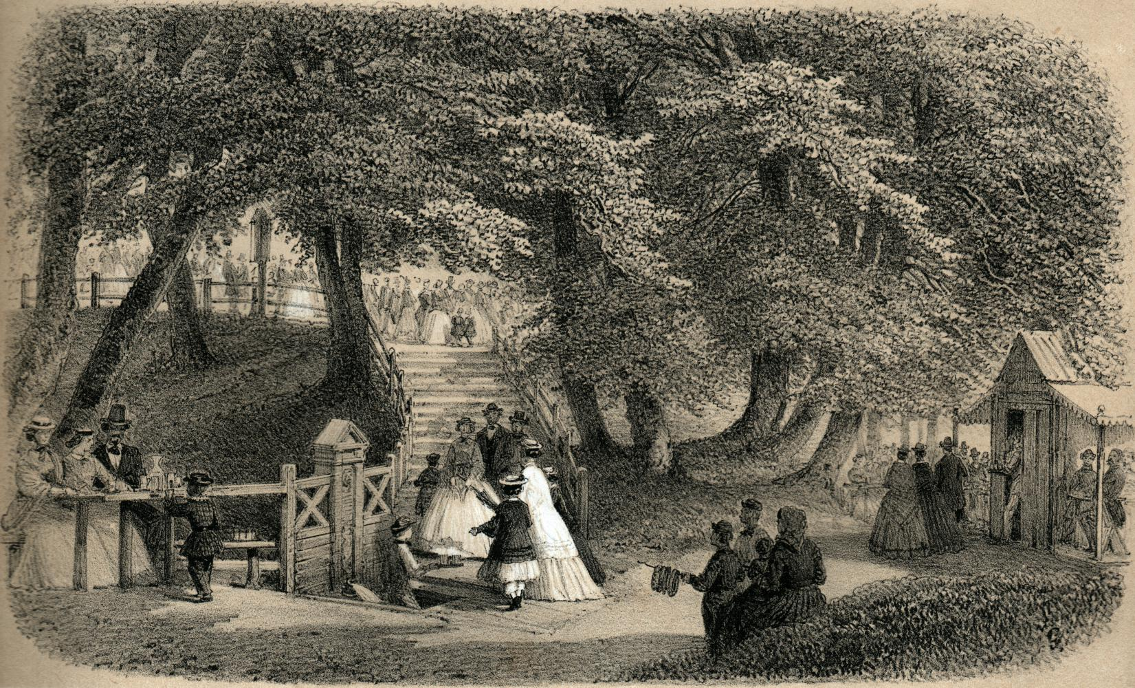 Scanned by myself from a copy of the old book in 2007. The book was graciously lent to me by Det Kongelige Garnisonsbibliotek.